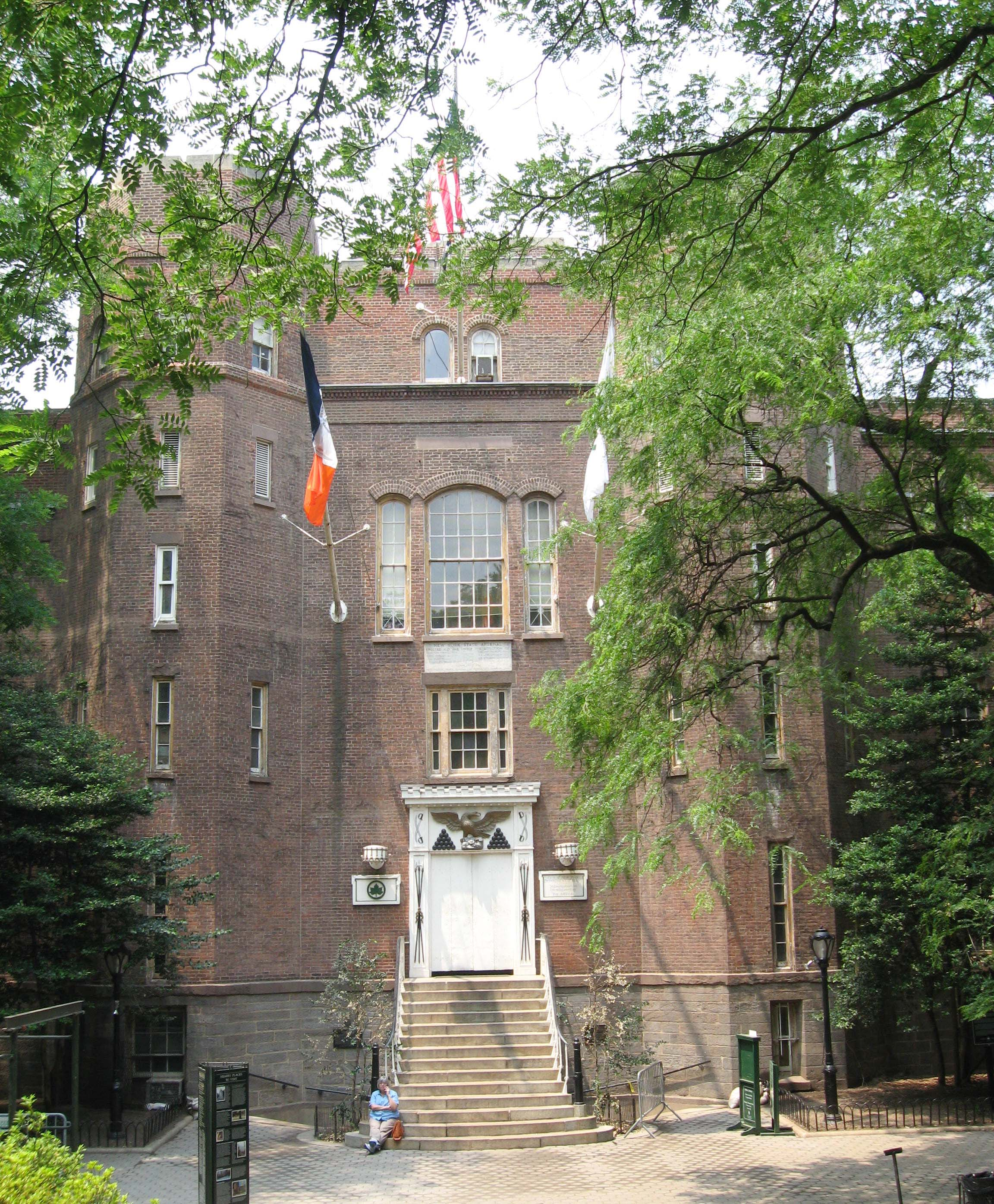 Looking west from 5th Avenue at the front door of Arsenal (Central Park) on a June early afternoon.